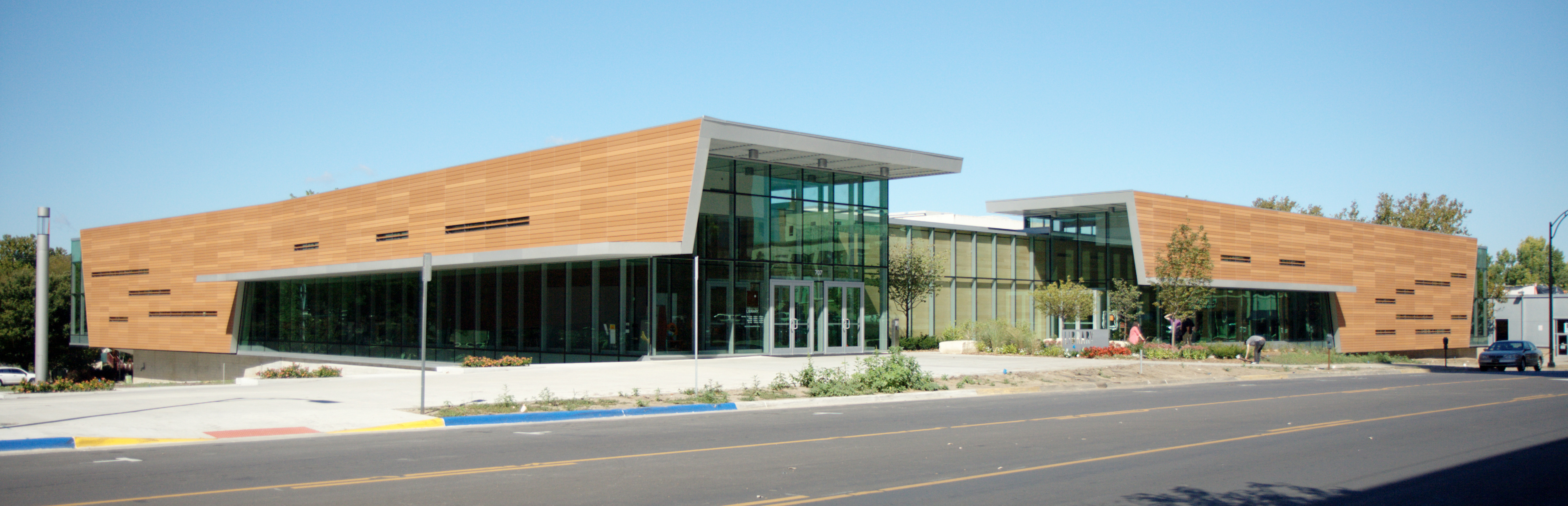 The entrance of the newly expanded Lawrence Public Library at 707 Vermont Street in Lawrence, Kansas as of September 2014